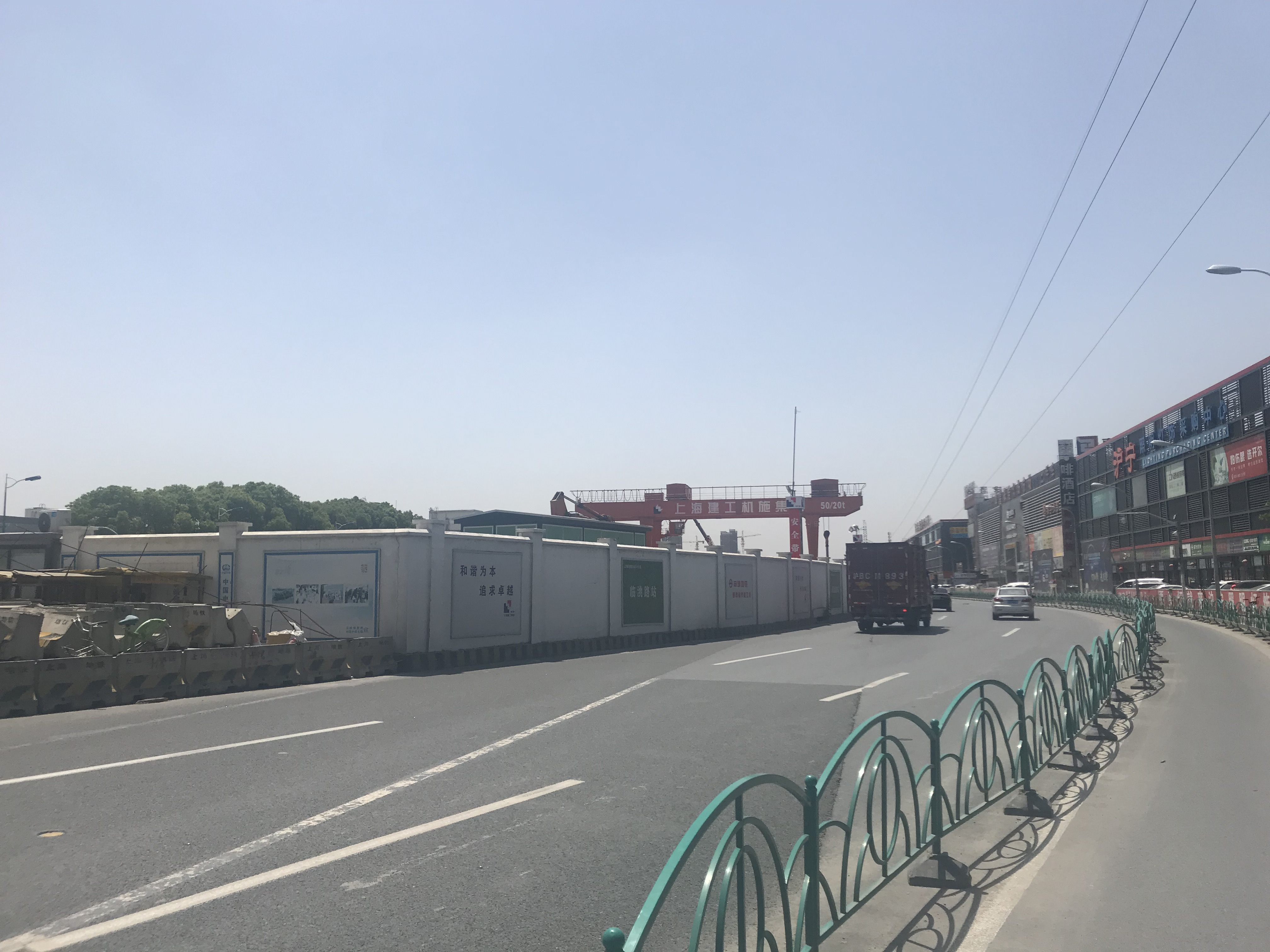 201805 L14 Lintao Road Station under Construction